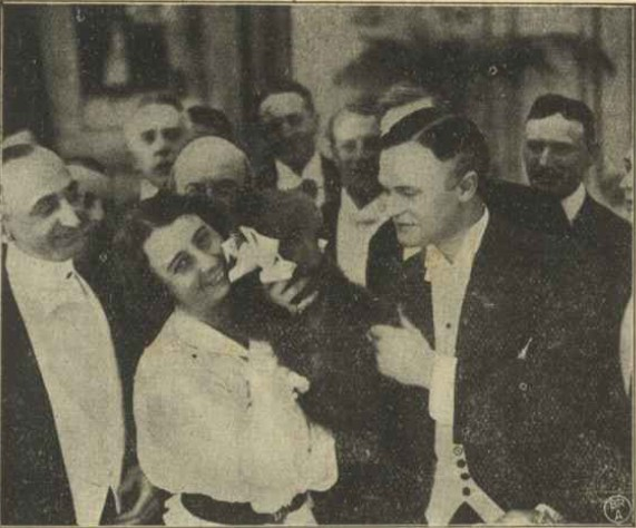 From the program for the silent movie: "Trold kan tæmmes" (DK/US: 1915). Marketing pamflet